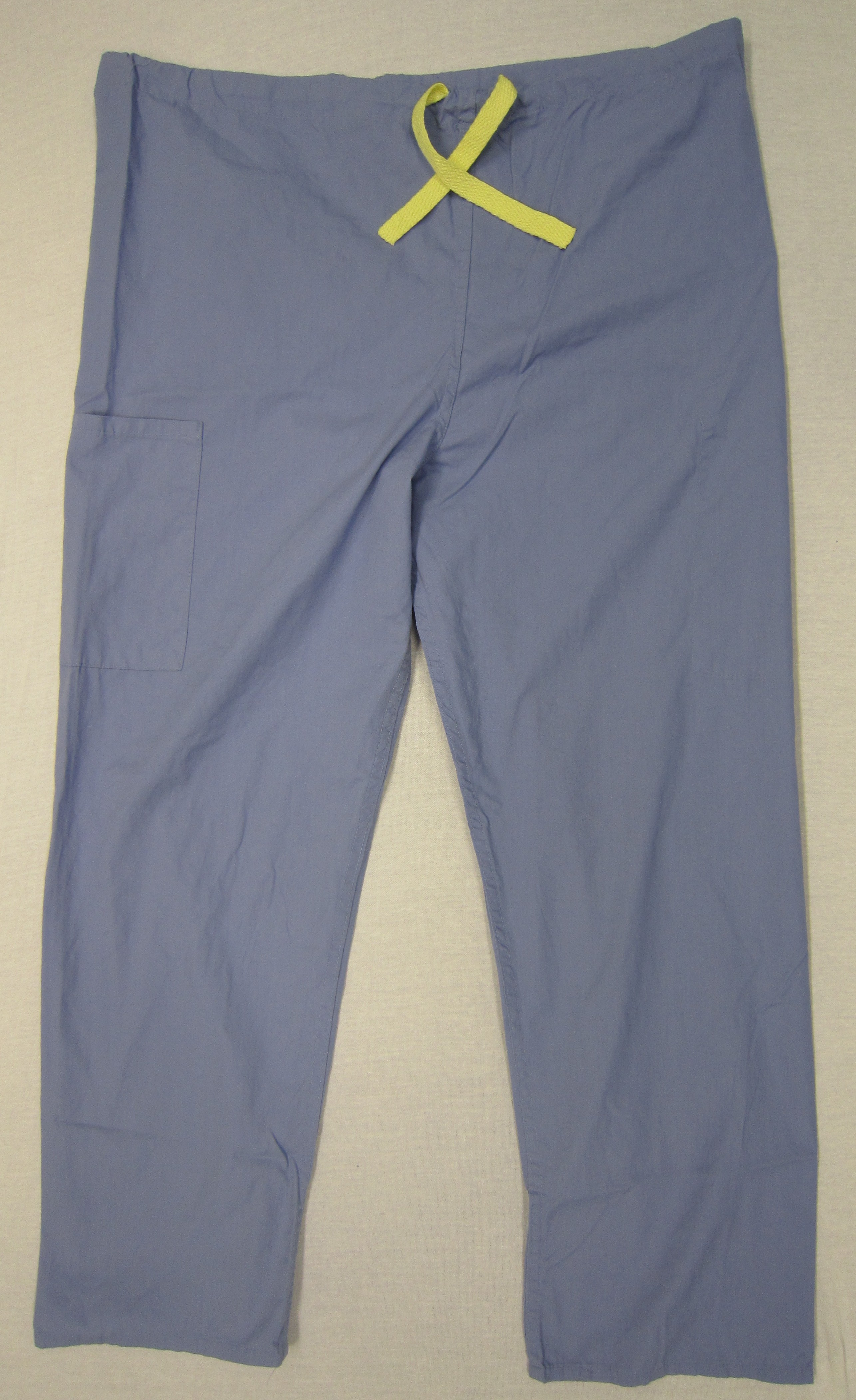 Scrub bottom